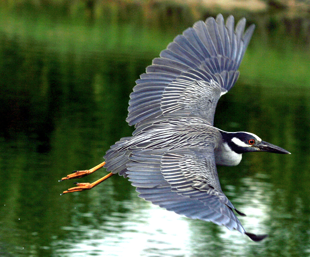 Yellow-crowned Night Heron flying over water.